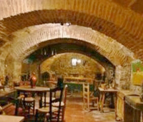 museo